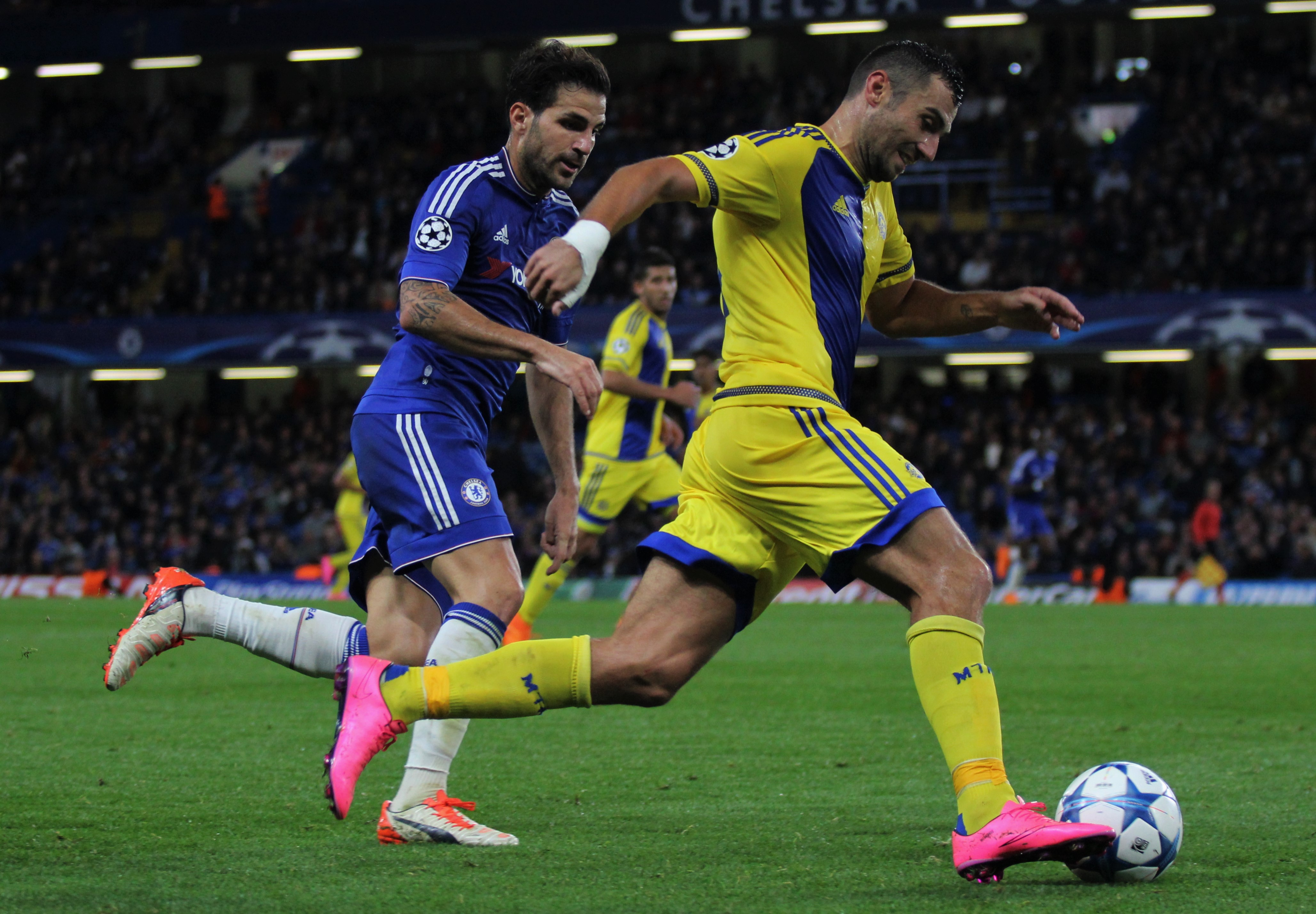 Nikola Mitrovic of Maccabi Tel-Aviv on the ball during the Champions League game against Chelsea.